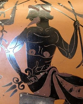 Hermes, Athena, Zeus (seated), Hera et Ares (all named). Side A of an Attic black-figure neck-amphora, end of 6th century BC.